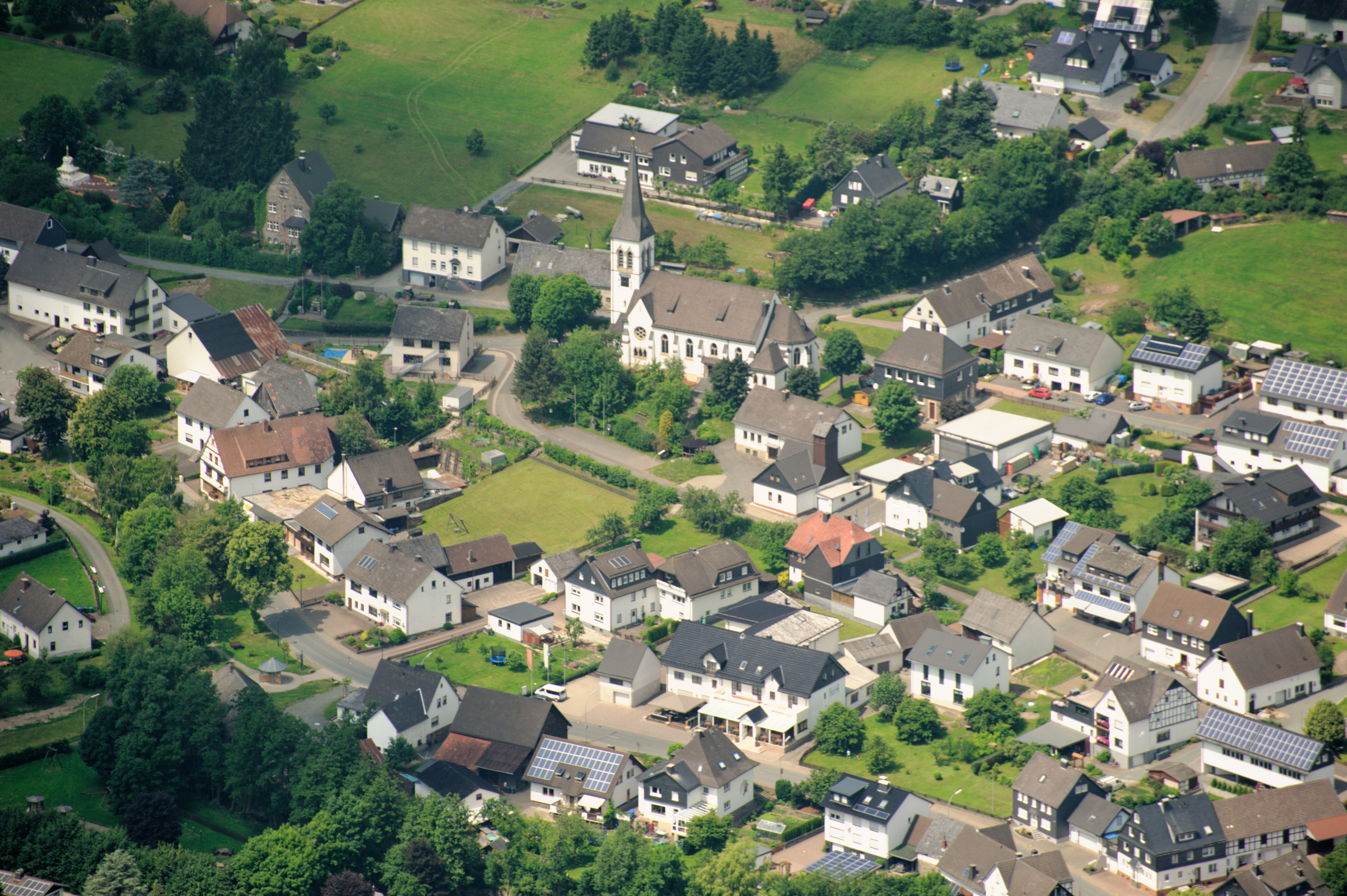 Fotoflug Sauerland-Ost: Medebach-Medelon, Ortszentrum mit Kirche. The making of this document was supported by the Community-Budget of Wikimedia Germany.